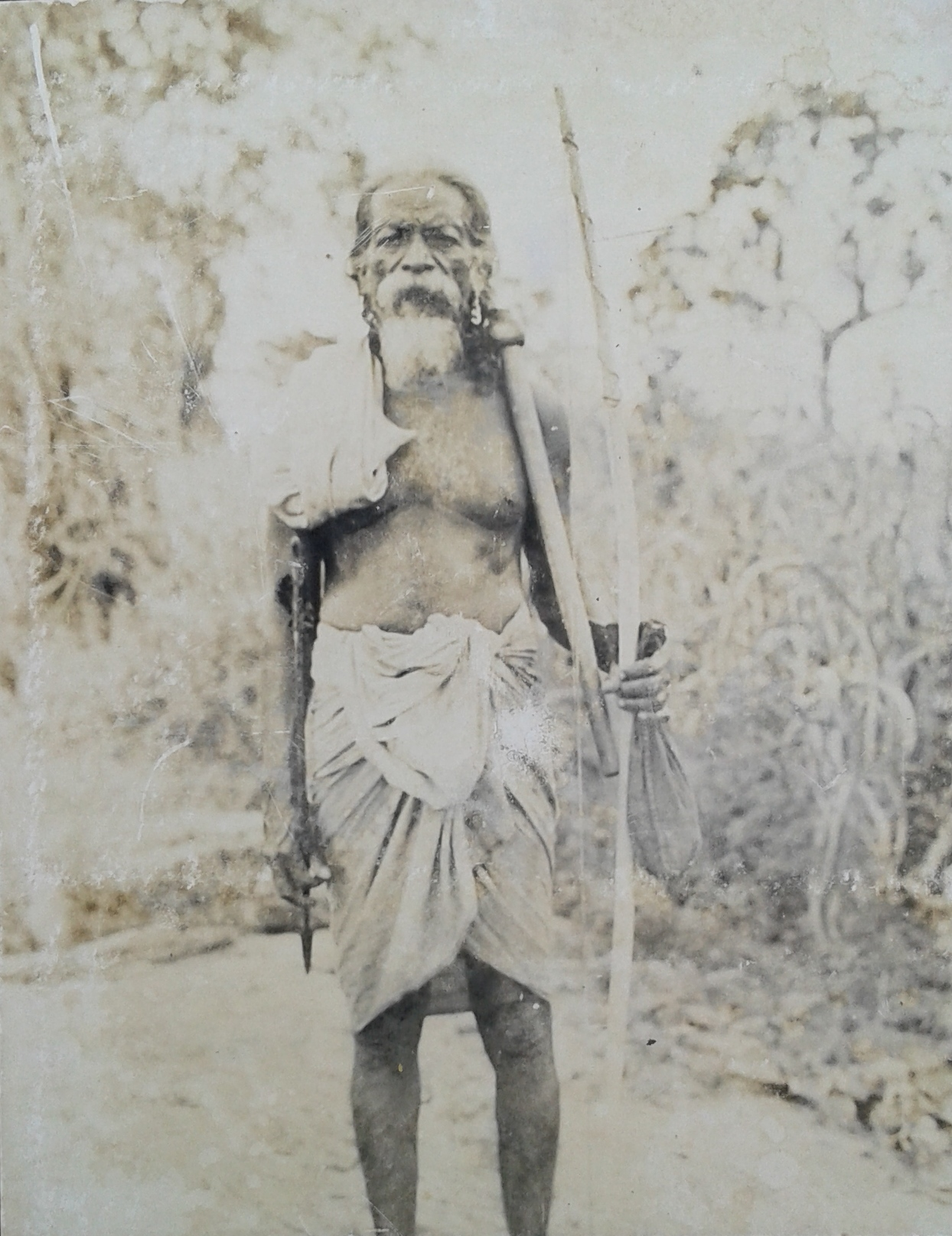 Photograph of the Most Prominent Vedda Chief Late Tisahamy Aththo.